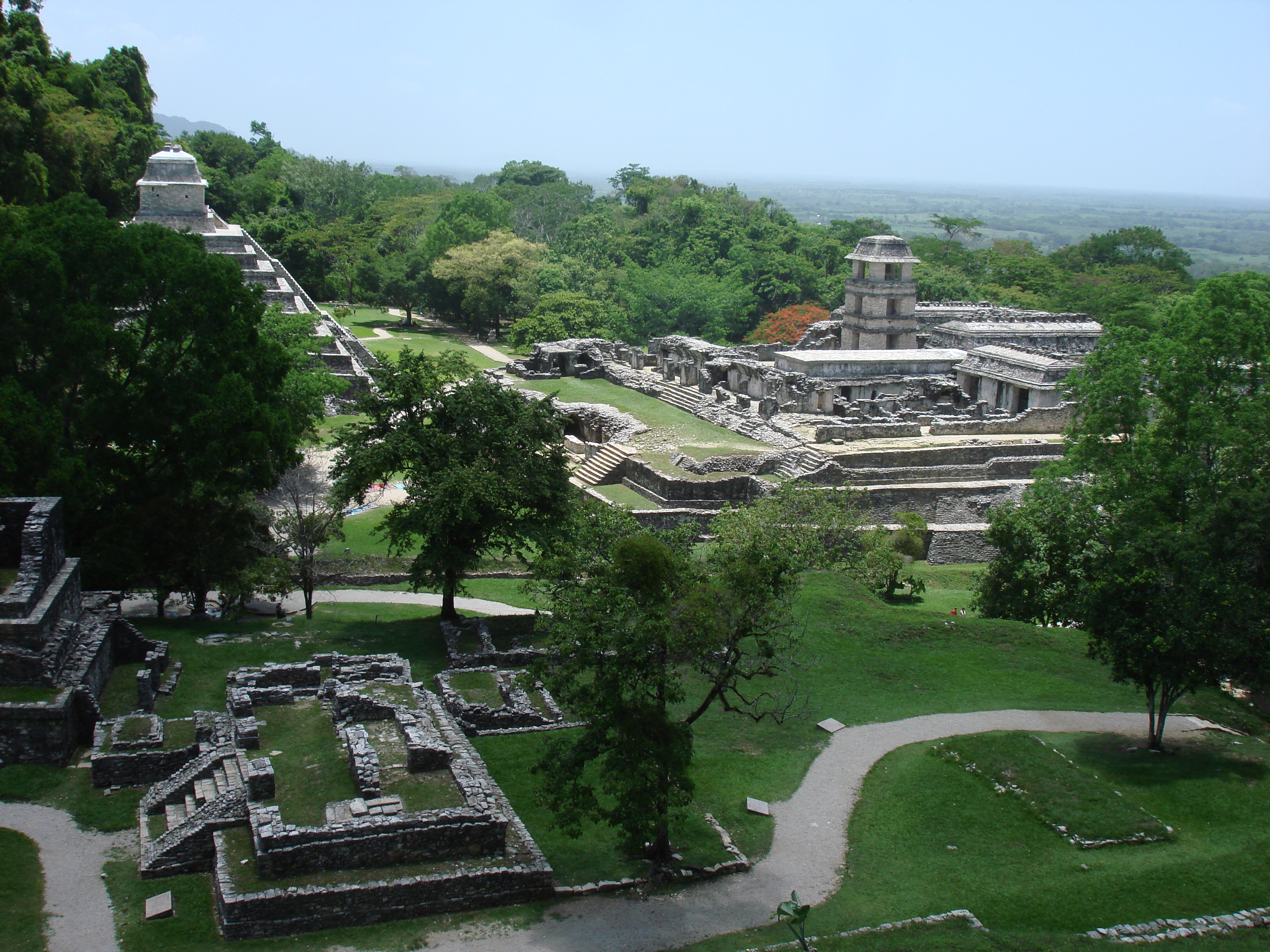 Palenque archeological site in Chiapas state